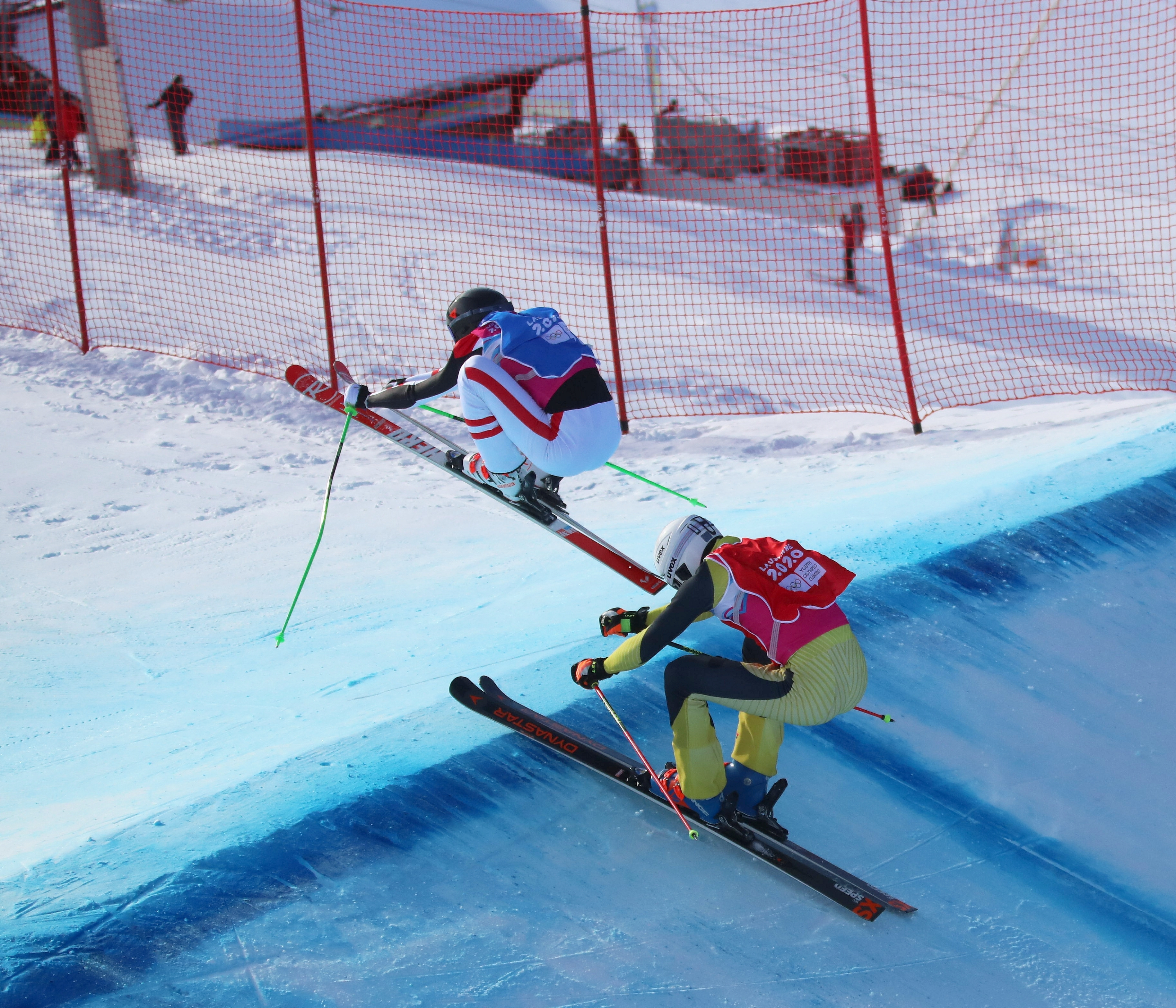 Small Final of Freestyle skiing – Snowboarding – Team Ski-Snowboard Cross at the 2020 Winter Youth Olympics in Lausanne on 21 January 2020.